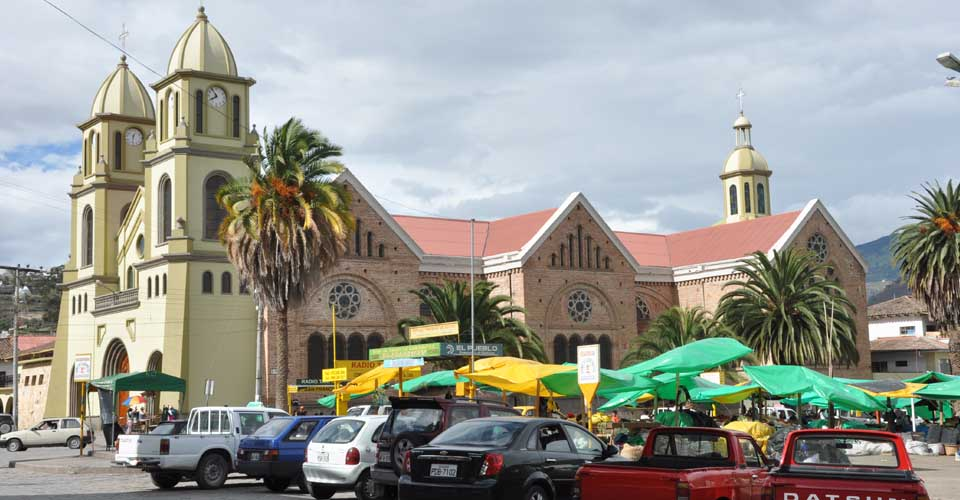 IGLESIA CENTRAL DE GUALACEO